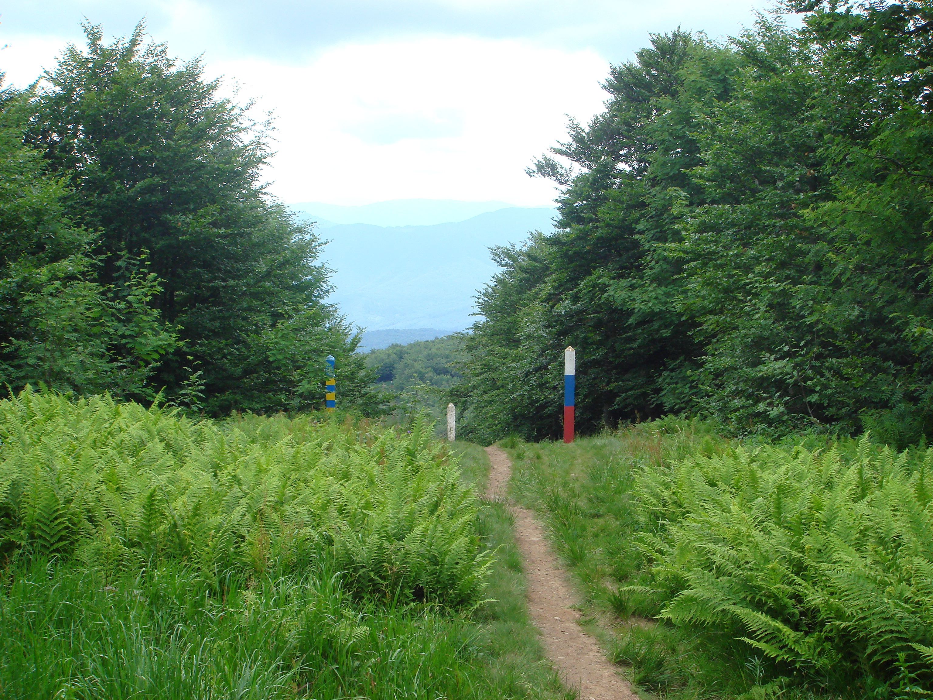 The Slovak-Ukrainian border near the Polish-Slovak-Ukrainian border tripoint.